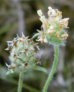 Fleur de/flower of Plantago scabra Moensch (syn. Plantago arenaria, P. psyllium L., P. indicia L. PLIN2) Angers, France Source : [1]